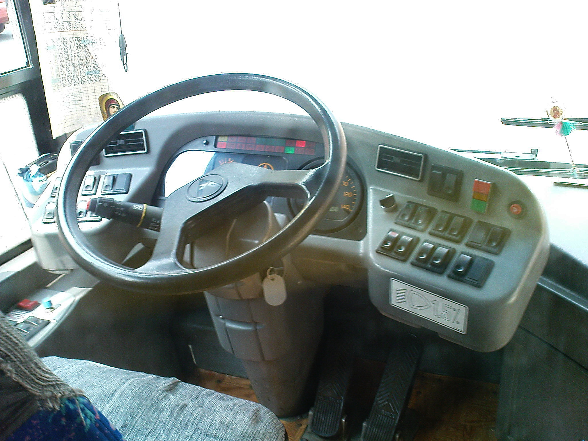 LAZ E183 cockpit (driver's place)